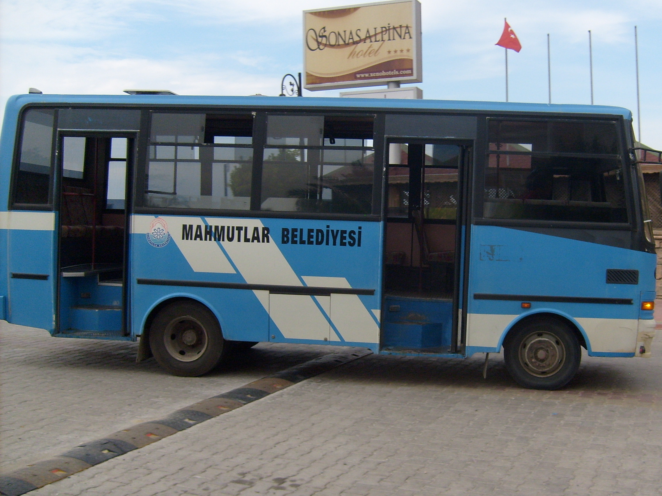 Dolmuş